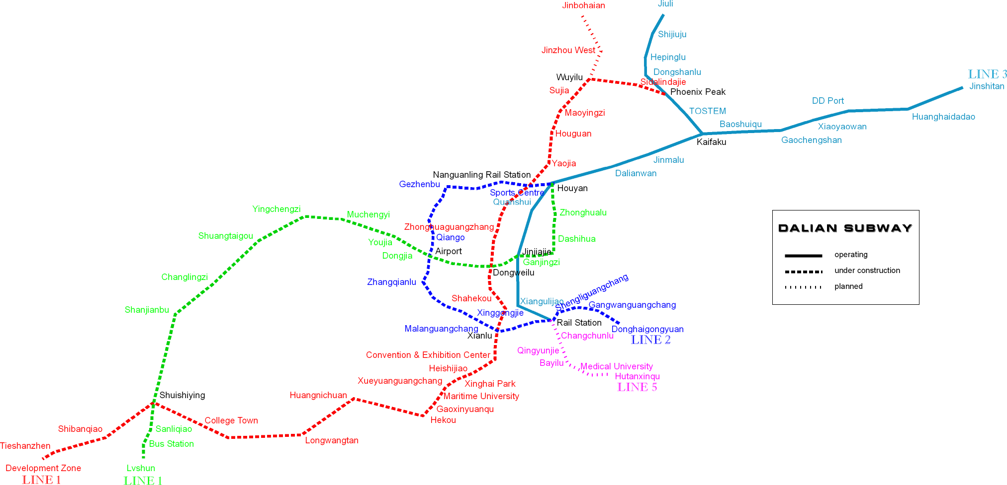 Master plan of Dalian subway